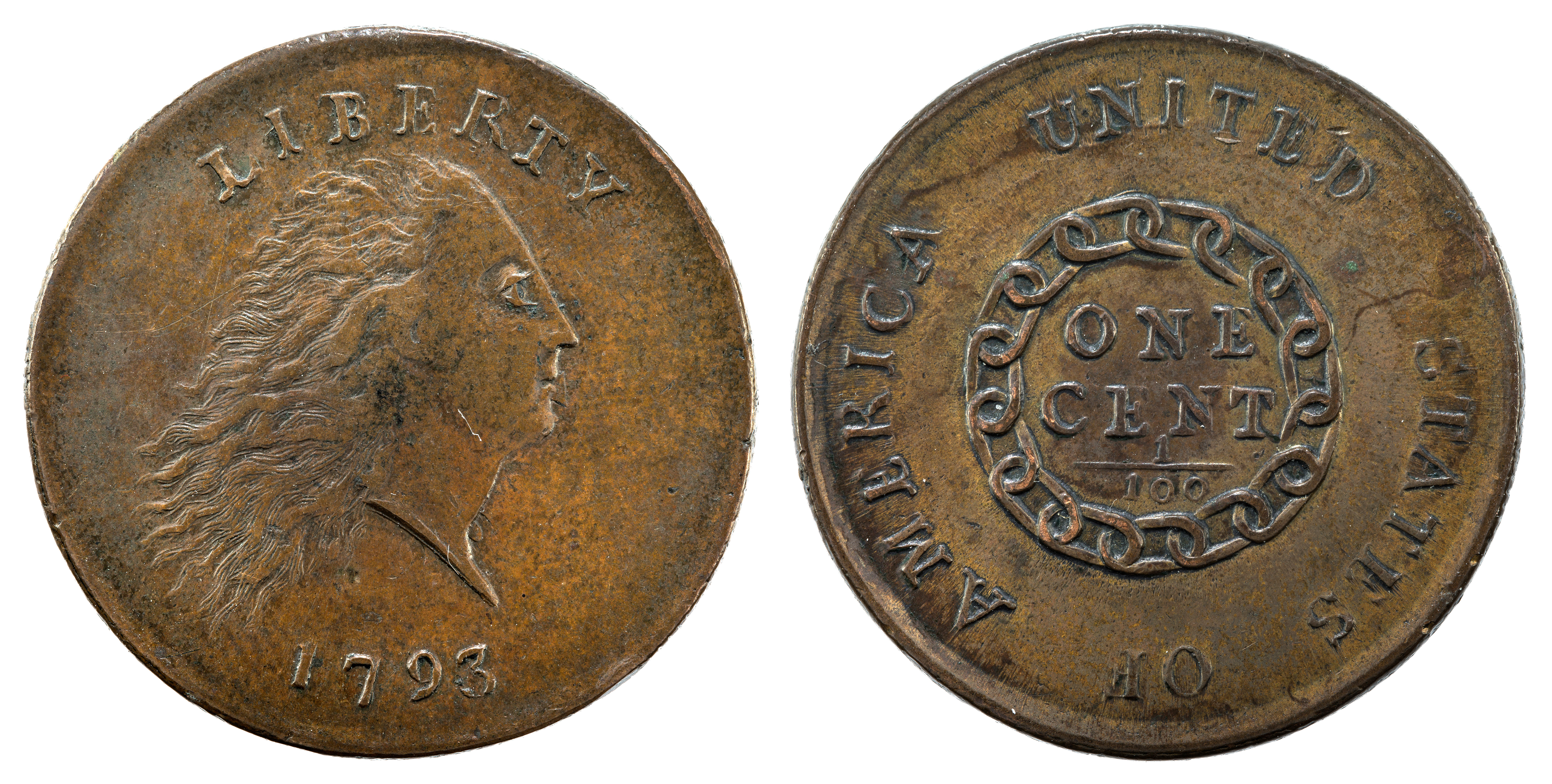 1793-1C-Flowing Hair Cent (chain)JN2015-6804-05